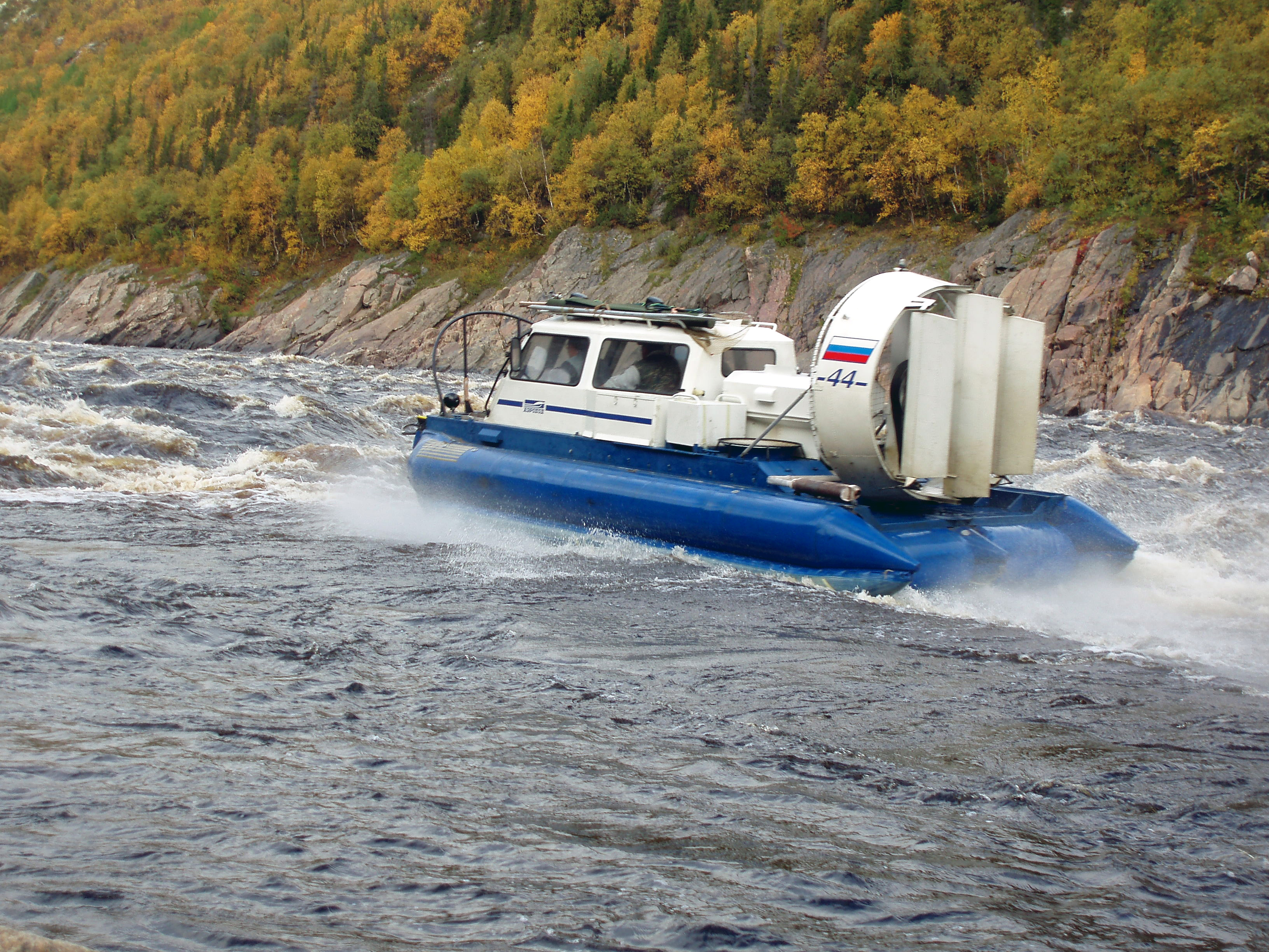 A5 Hovercraft on Kola peninsula